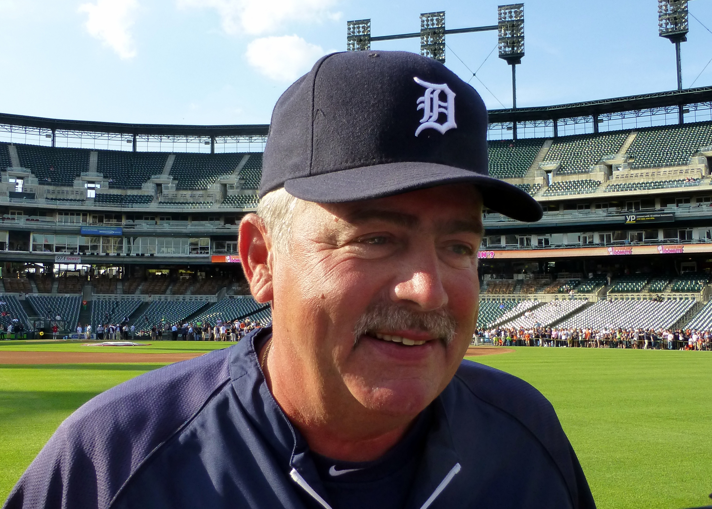 Jeff Jones in 2014